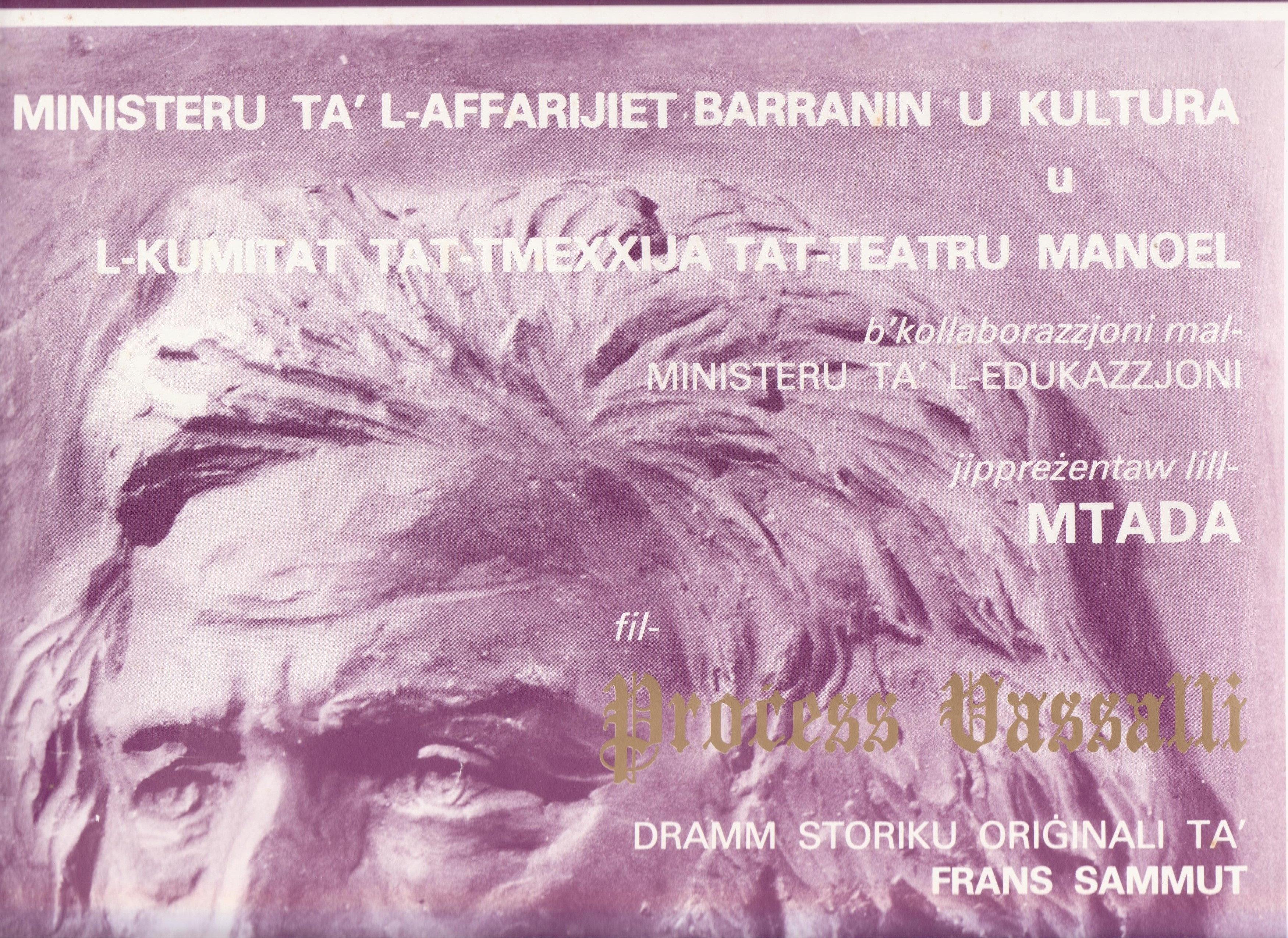 Process Vassalli, a play in Maltese written by Frans Sammut, and represented on 20 and 21 May 1982.